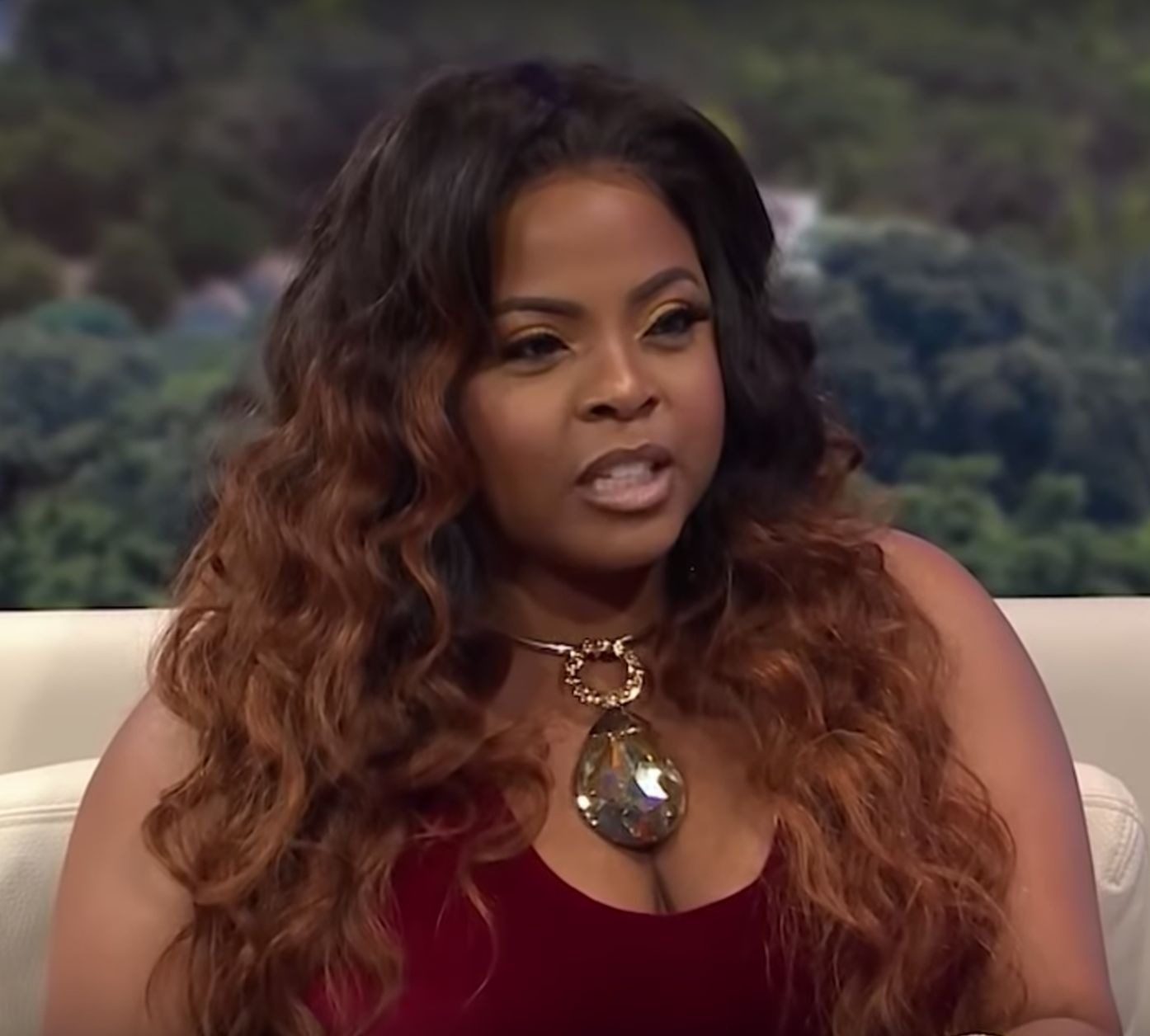 Actress Brely Evans On New Projects And Using Your Gifts